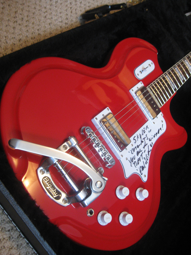 Eastwood - Airline Coronado® DLX signed by musician Earl Slick